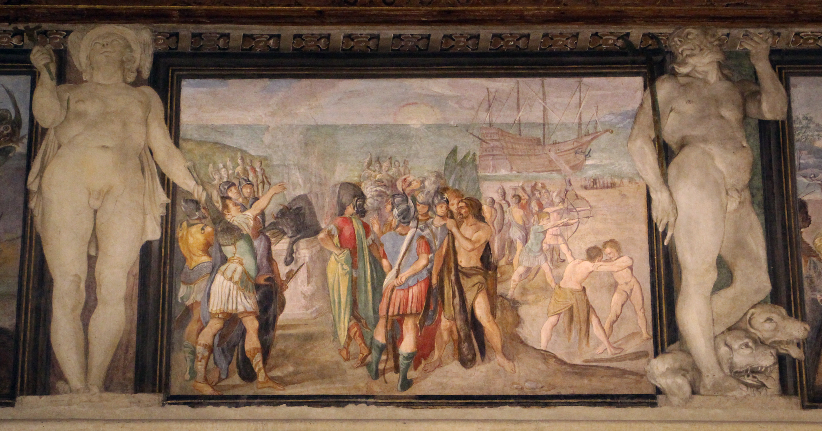 Frieze of Jason and Medea